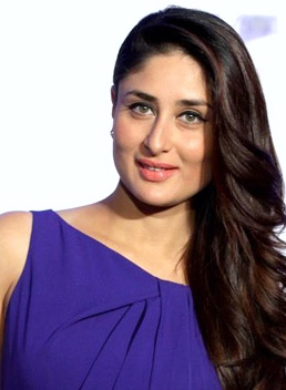 Kareena Kapoor Khan at an event for Head & Shoulders